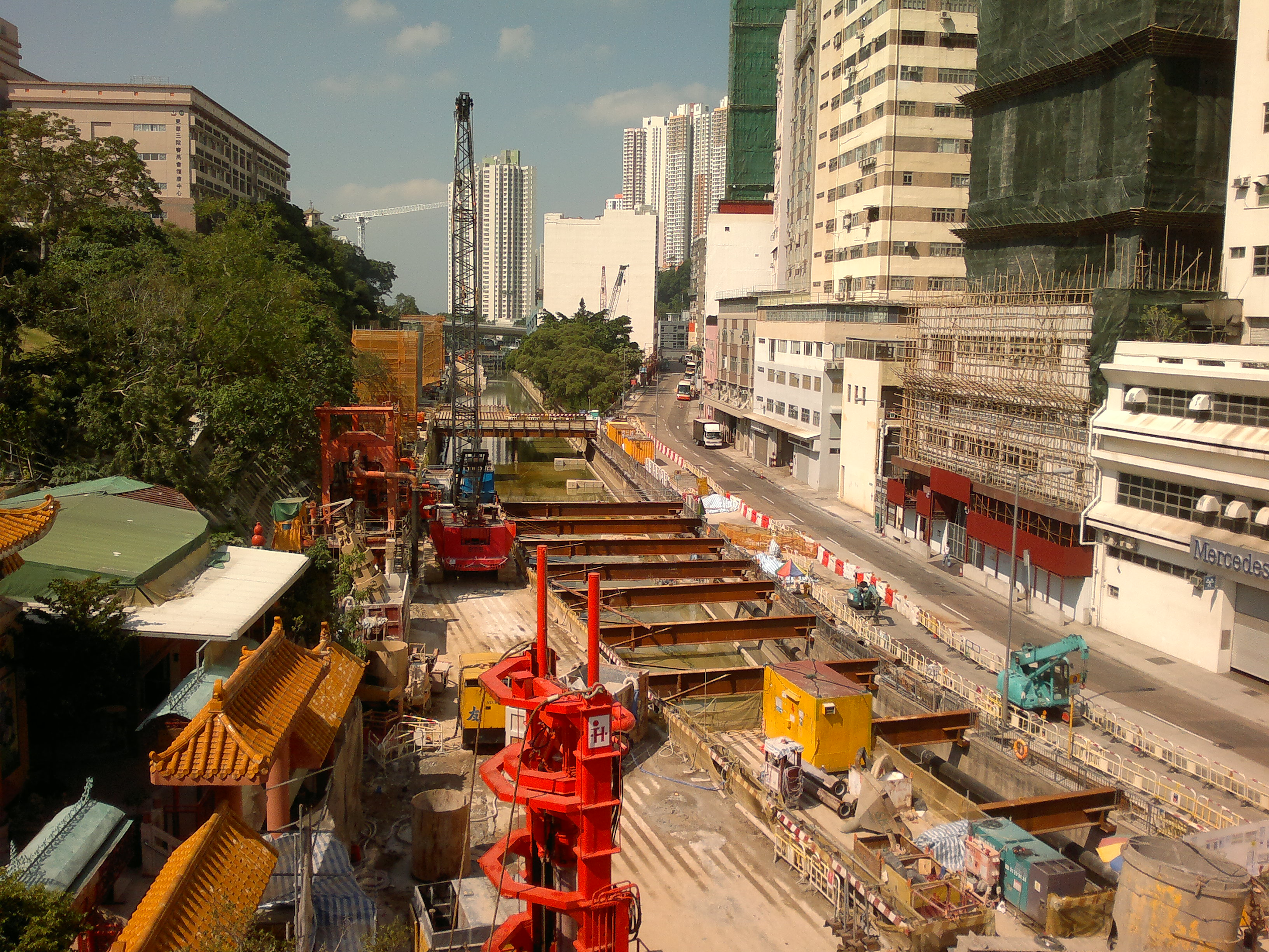 Staunton Creek Nullah in 2012